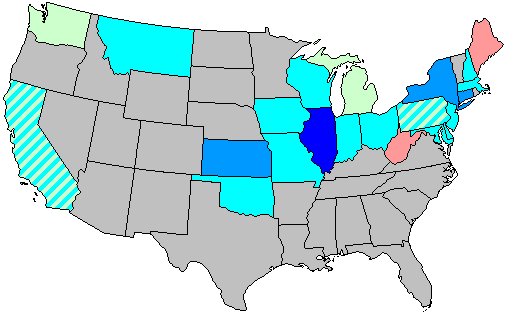 Summary of party change of U.S. house seats in the 1912 House election. Stripes indicate a tie between the gains of two or more parties. Legend: 6+ Democratic seat pickup 3-5 Democratic seat pickup 1-2 Democratic seat pickup 1-2 Republican seat pickup 3-5 Republican seat pickup 6+ Republican seat pickup 1-2 Progressive seat pickup 1-2 Farmer-Labor seat pickup 1-2 Socialist seat pickup Note: years ending in 2 may have inconsistent results due to redistricting.